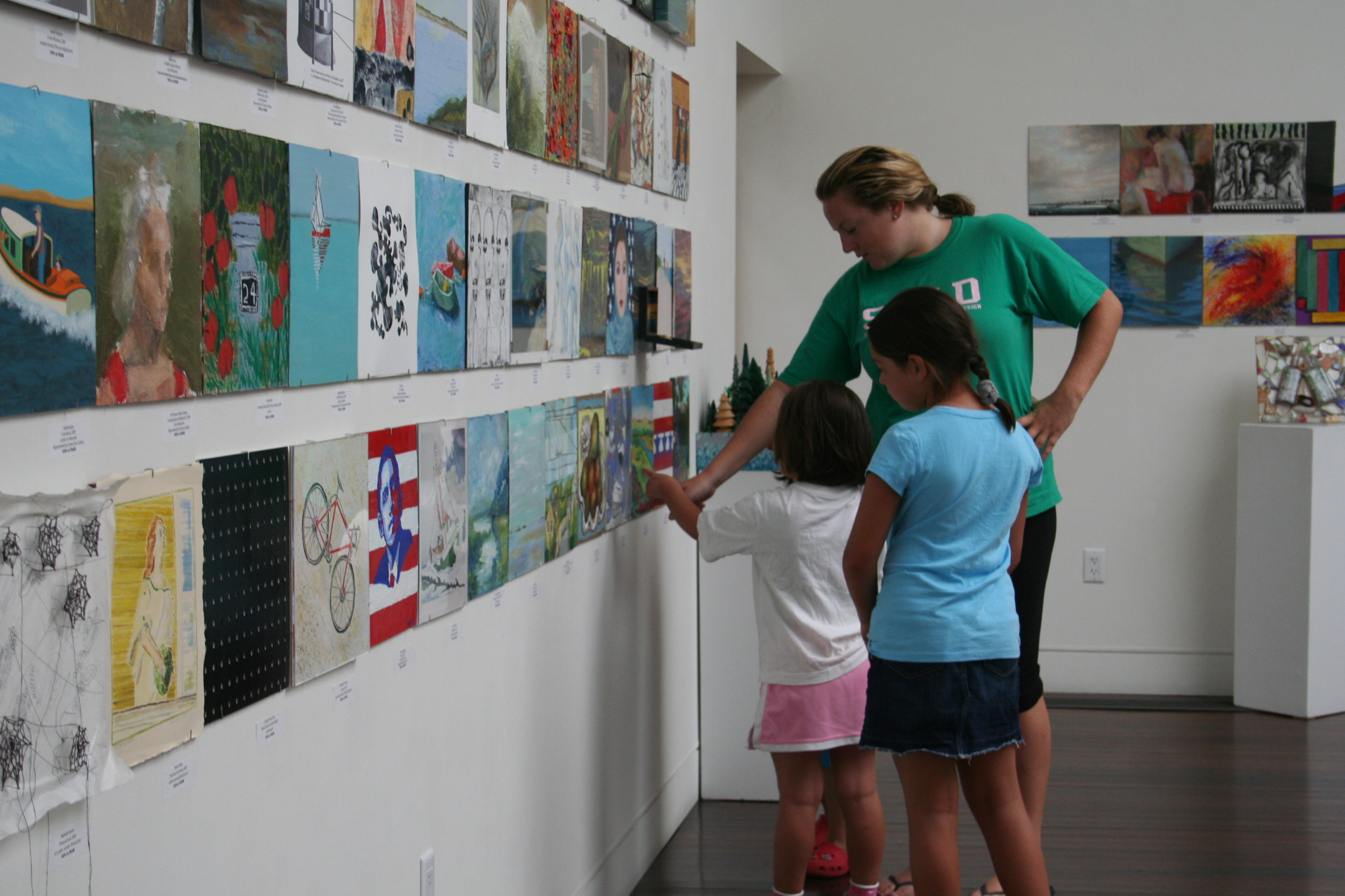 Sarah Toscano discusses an exhibition at PAAM with children participating in Children's Art Adventures.